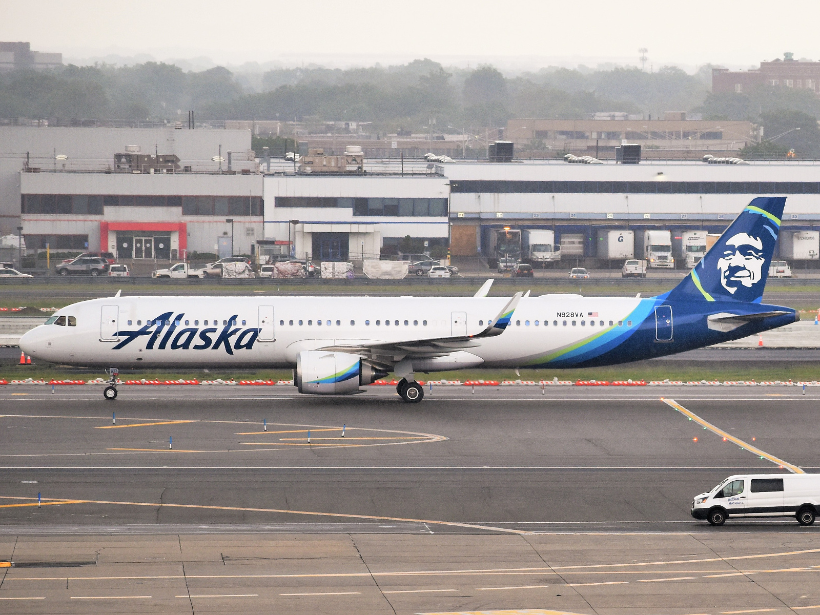 An Alaska Airlines Airbus A321neo is taxiing to its gate at John F. Kennedy International Airport.